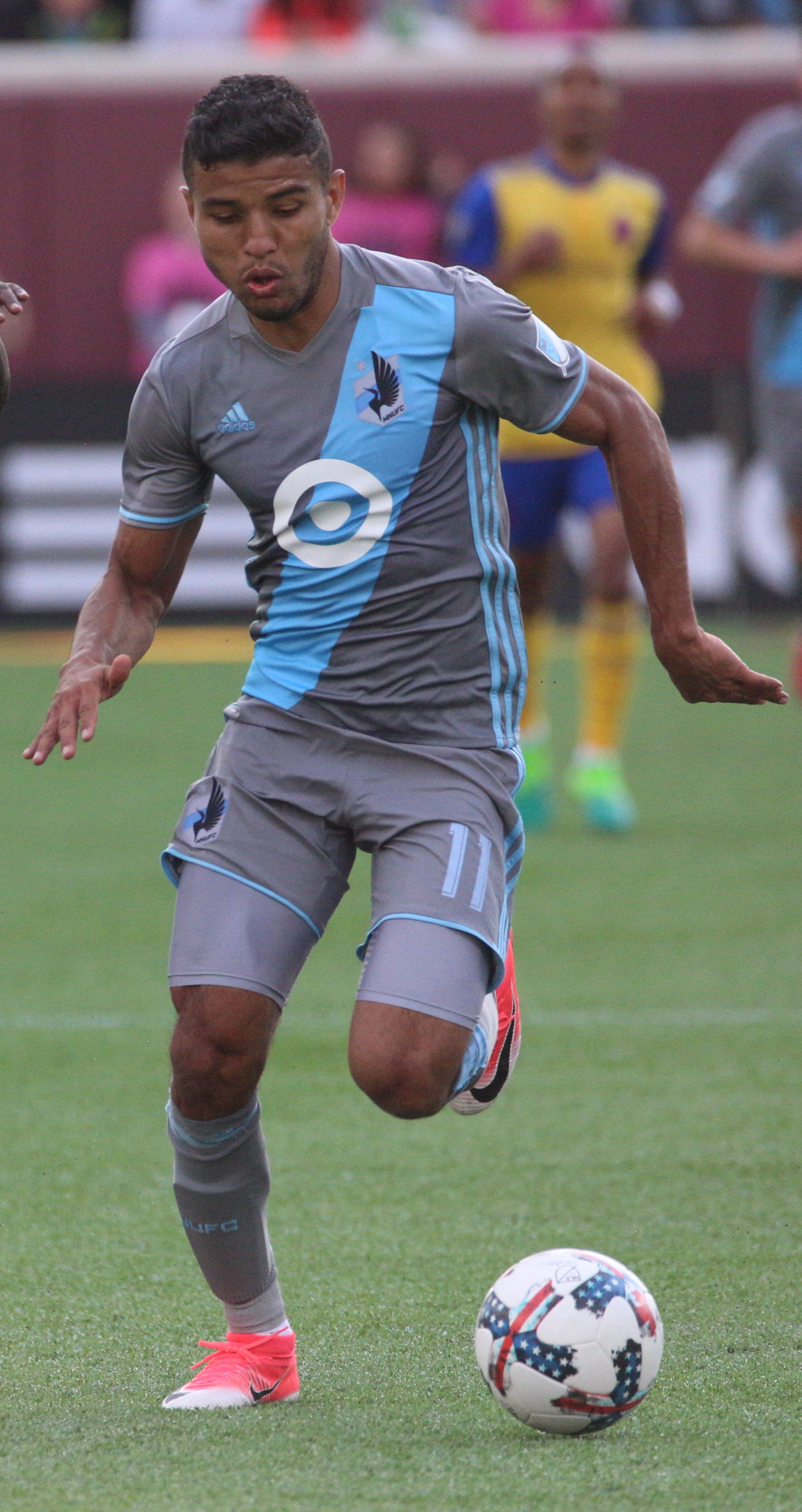 Johan Venegas - Costa Rica - Ticos - Minnesota United - Soccer - MLS